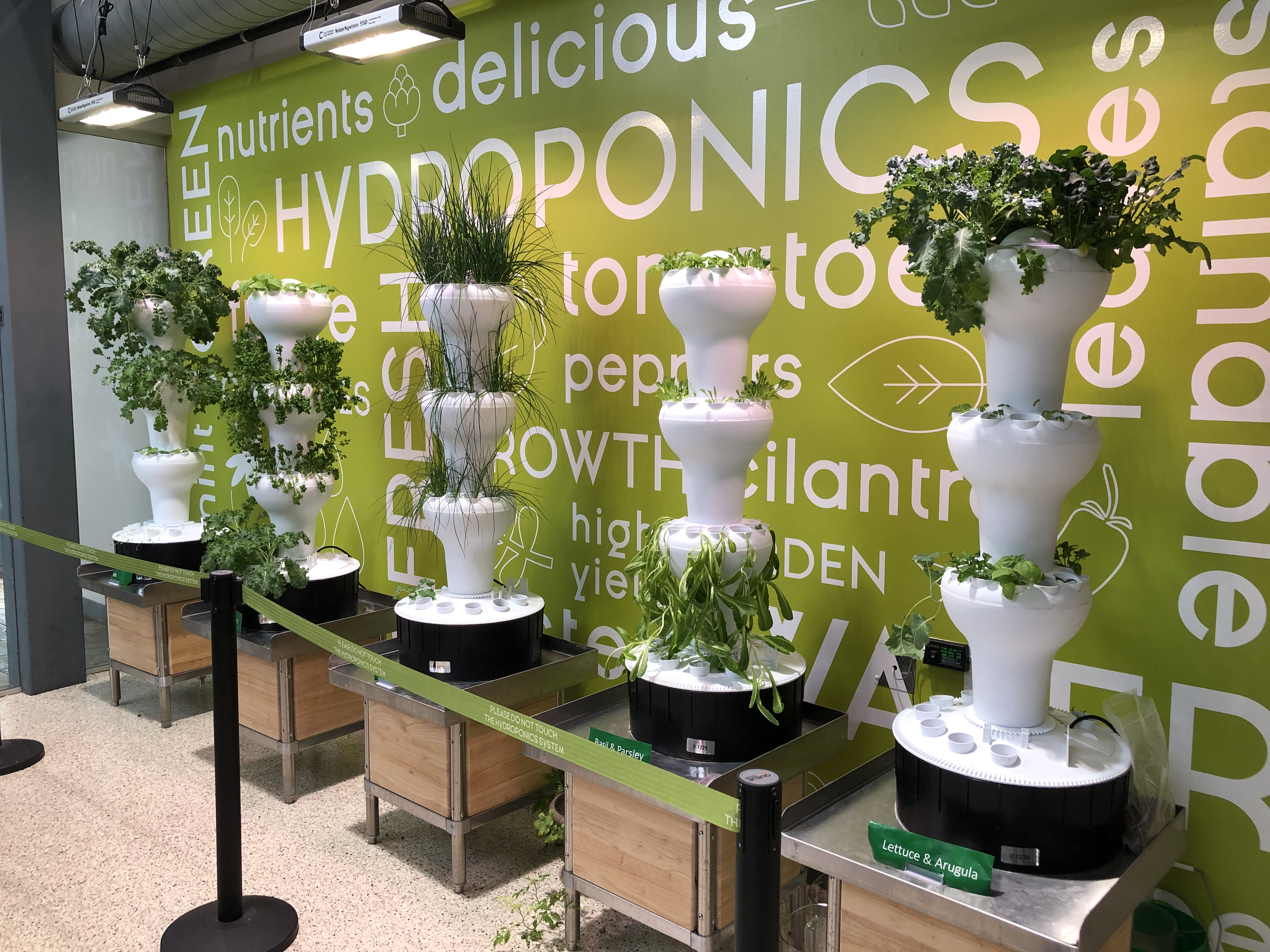 A hydroponics system that grows food for the Oaks dining hall at Bowling Green State University. This is the same system as bellow after there has been significant growth.